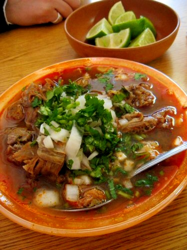 reyes de ocotlán birria, Location: Chicago Cuisine: Chicago